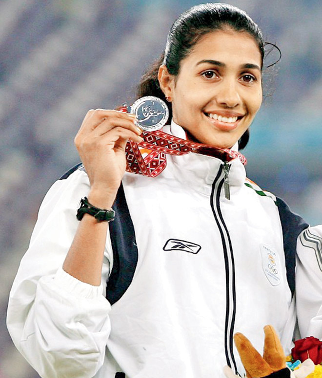 Anju Bobby George at Doha Asiad, December 2006